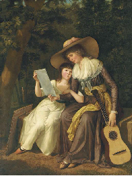 Hugh Douglas Hamilto, R.H.A. (1740-1808) Double Portrait of Mary, Countess of Erne, with her daughter Lady Caroline Crichton, later Lady Wharncliffe, full-length, seated, the former in a brown dress with a yellow sash, wearing a large straw hat, with a mandolin beside her, the latter showing her mother a drawing from a portofolio, in a wooded landscape oil on canvas 67 x 51½ in. (170 x 131 cm.)